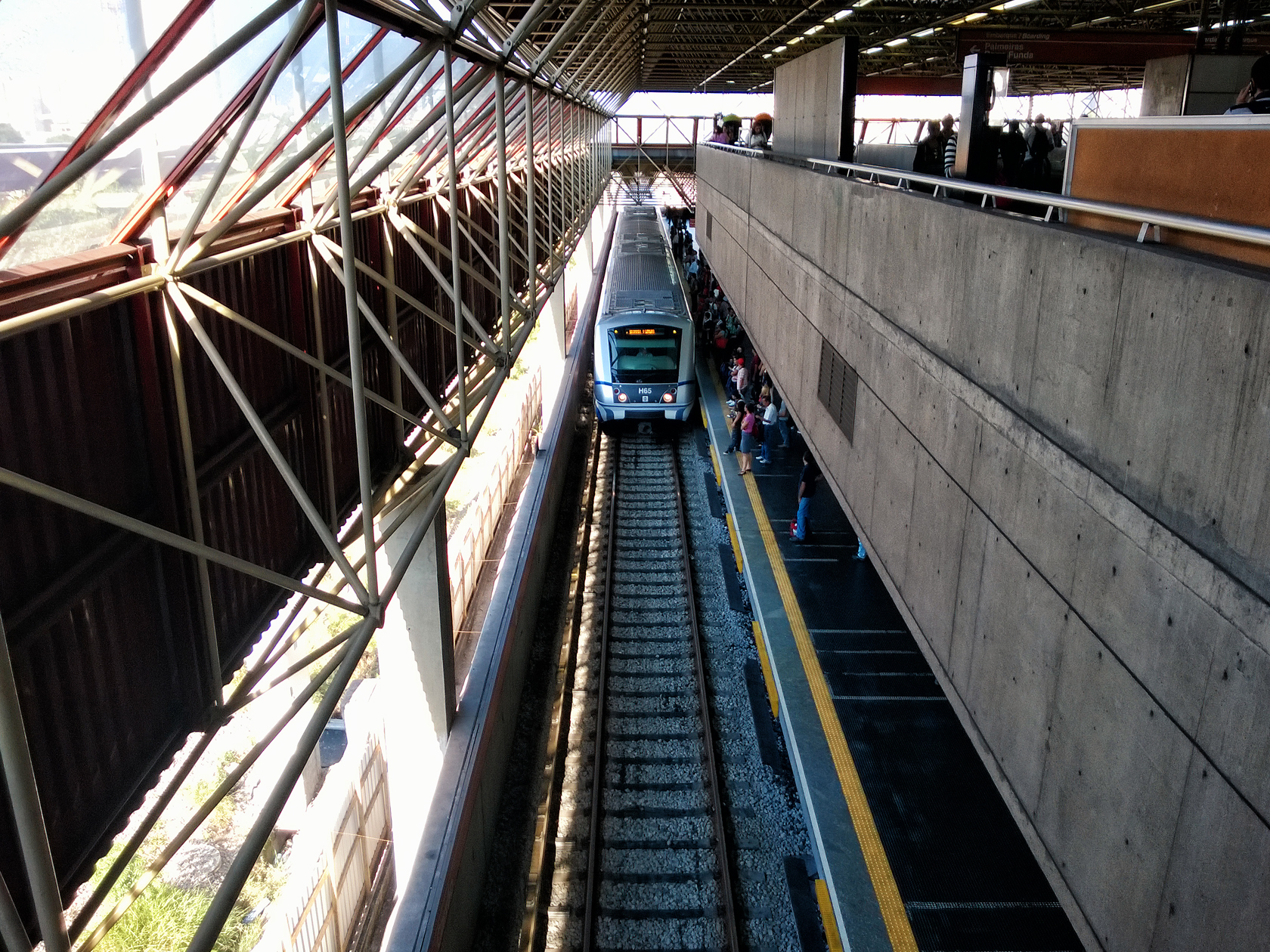 A Barra Funda-bound CAF H-Series train arriving at Carrão station of Line 3/Red of Sao Paulo Subway system. Brazil.